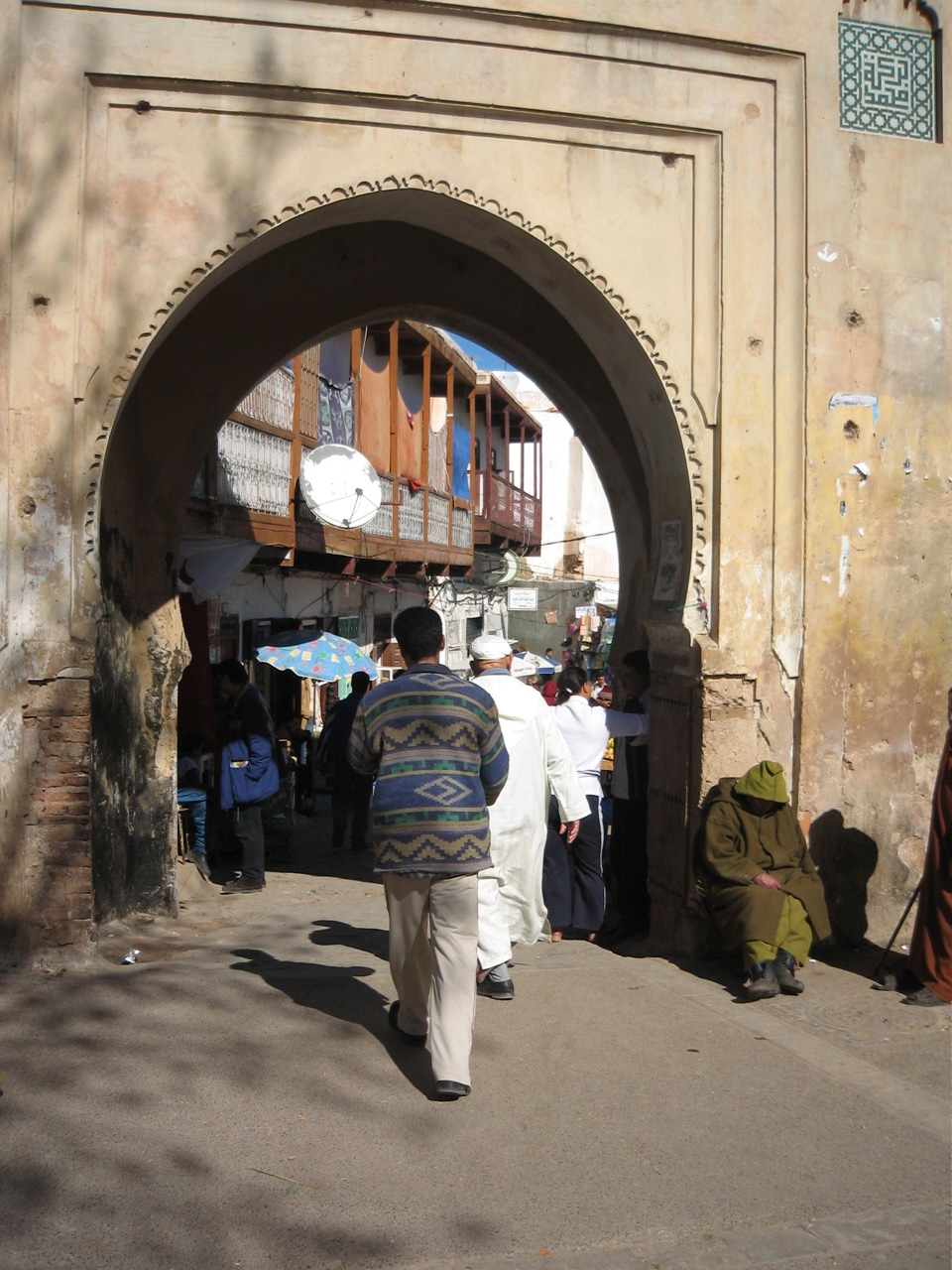 medina gate in sefrou